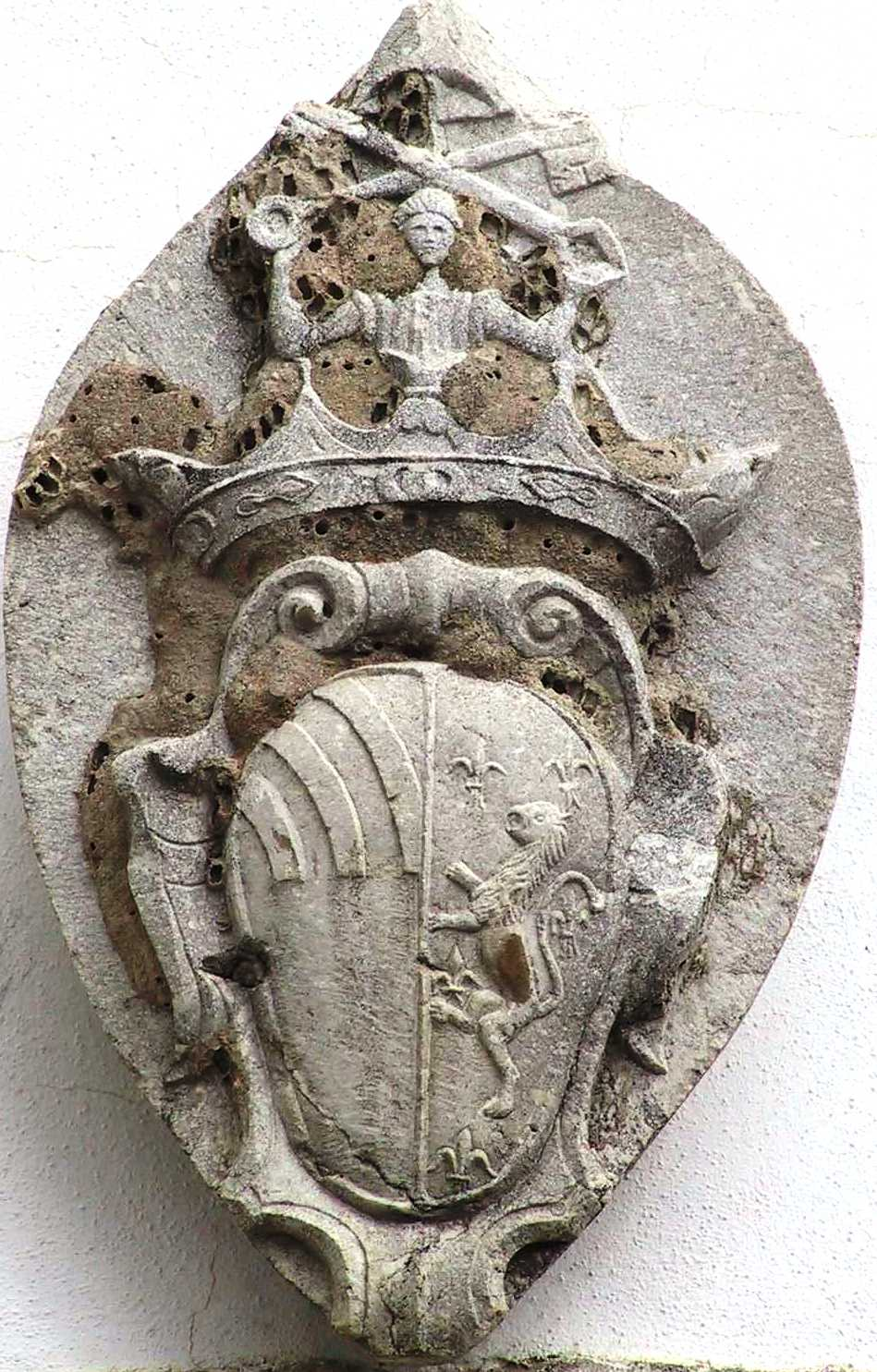 Double Coat of Arms: on the left the one of the House of Ludovisi; on the right the one of the House of Gesualdo.